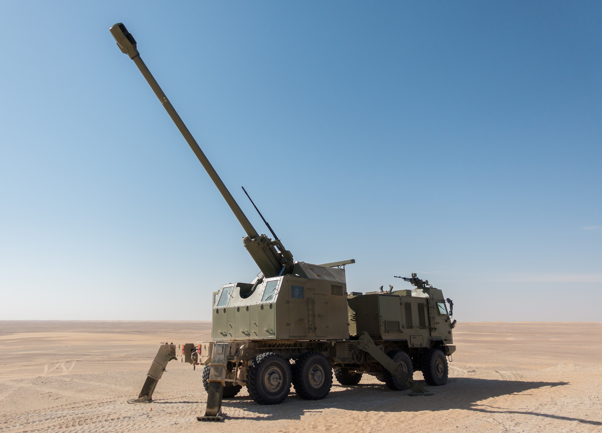 NORA-B52 M15 is a self-propelled gun-howitzer intended for the fire support of its units, which it achieves with strong, sudden and fast fire at long distance targets and is considered one of the most successful products of the Serbian defence industry.